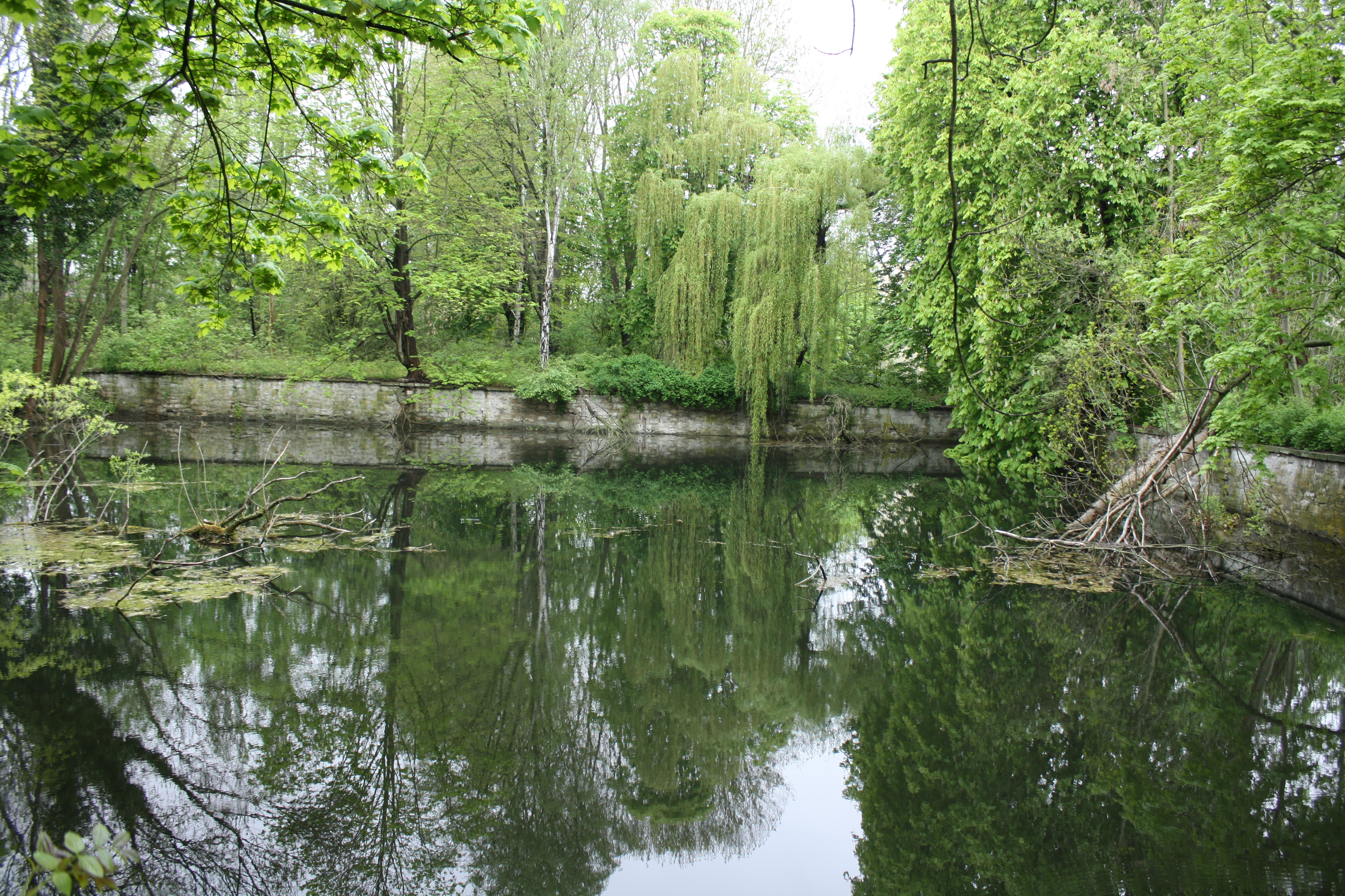 Jödebrunnen in Brunswick 2010